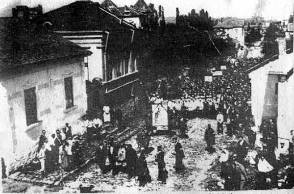 Mourning procession in Kjustendil that was carried out September, 1924, when the horrifying news about Todor Alexandrov's death came.